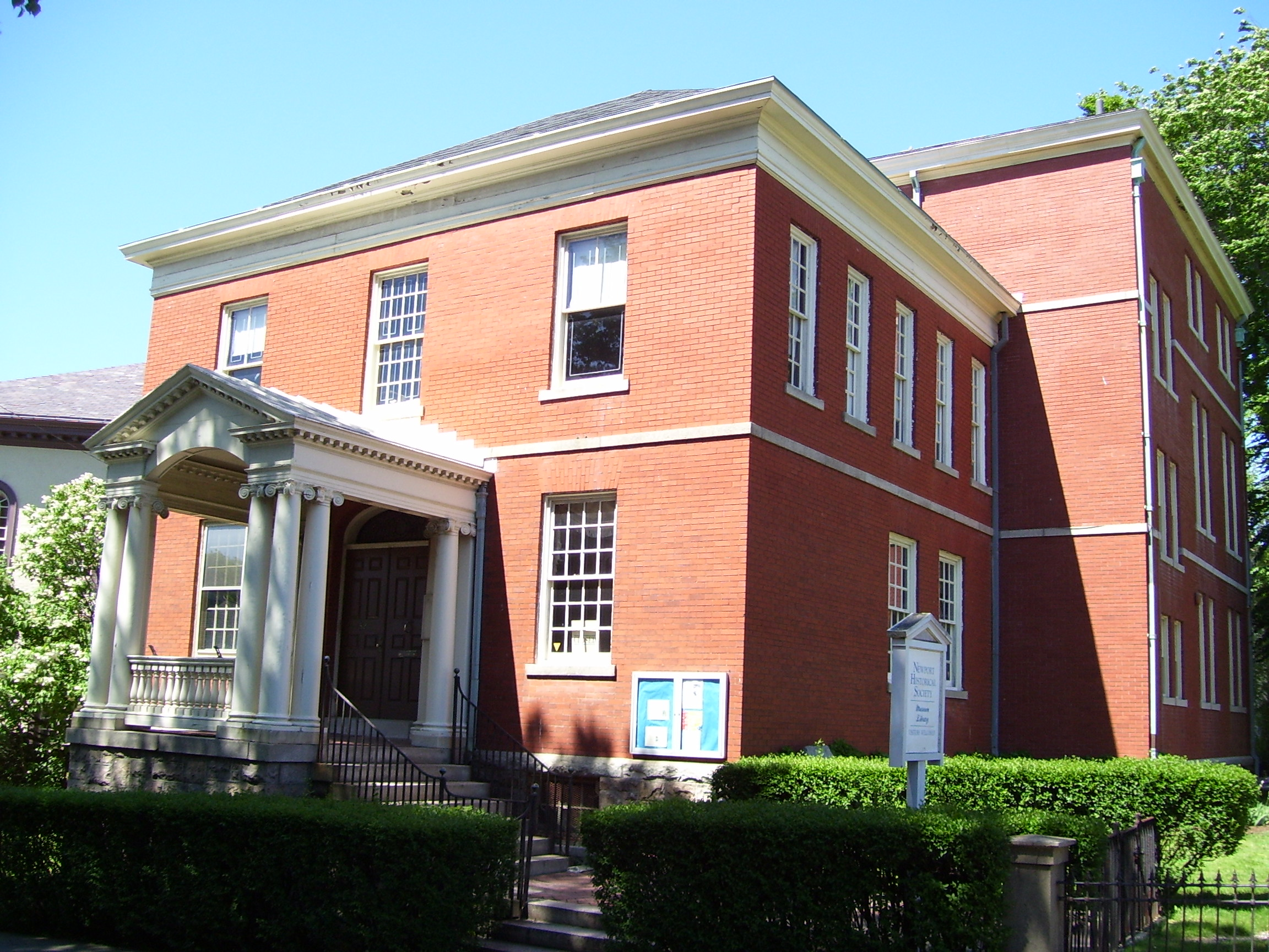 This is my 2008 of the Main Library Building of the Newport Historical Society in Rhode Island.